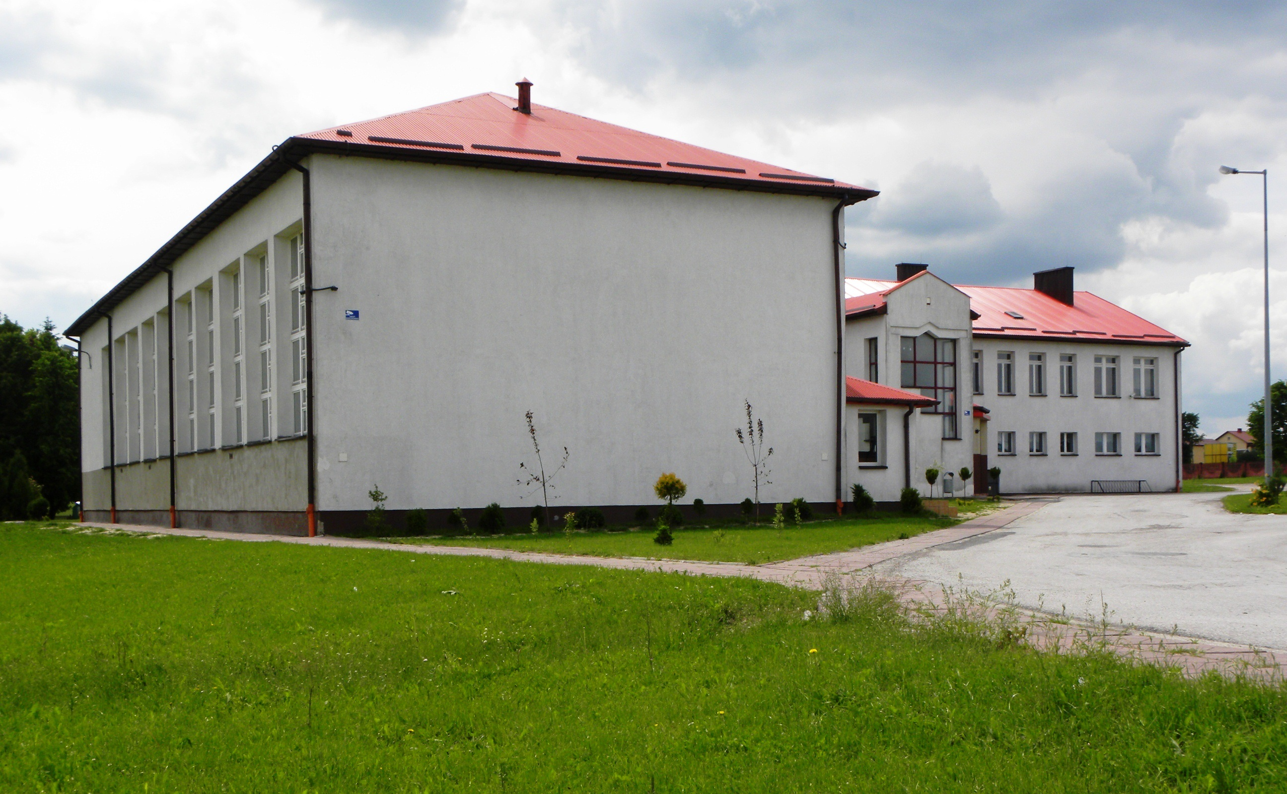 Primary school and secondary school in Miąsowa.